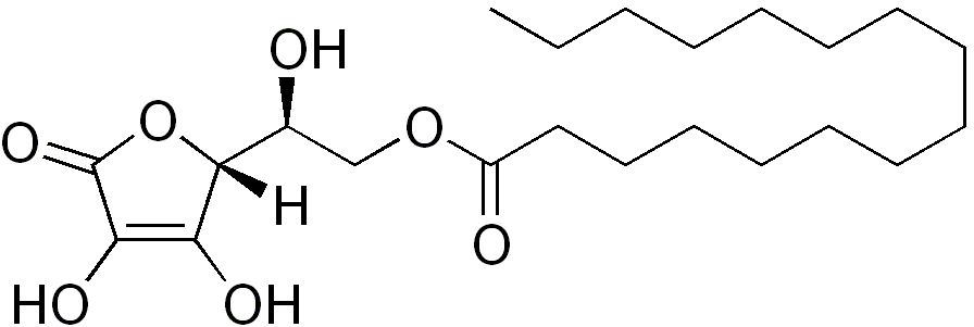 chemical structure of ascorbyl palmitate